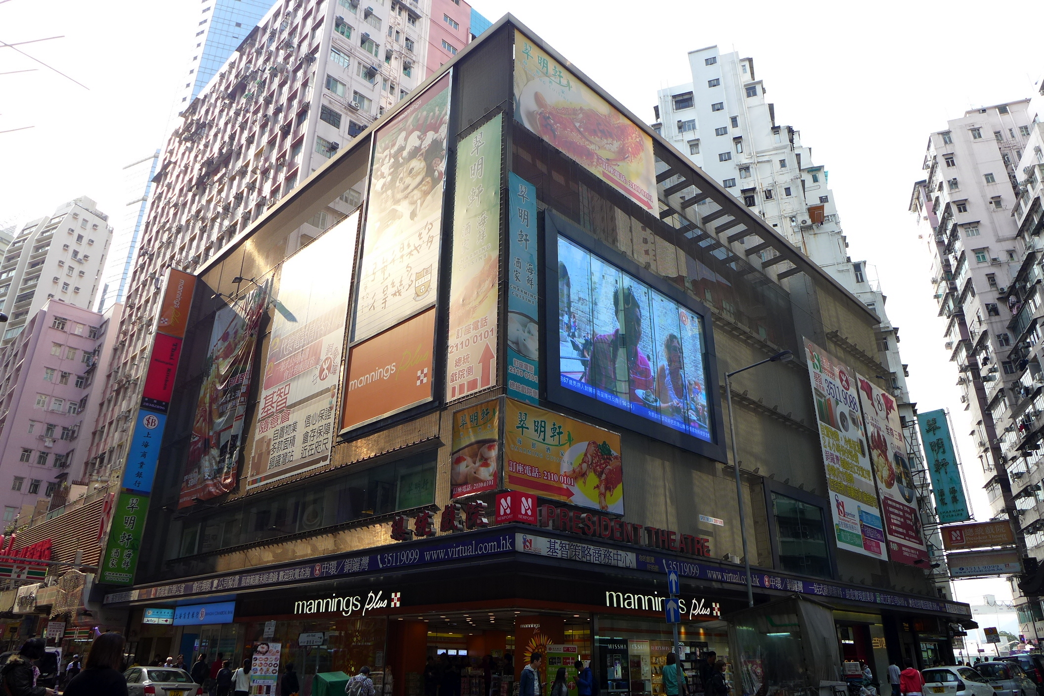 President Theatre in Causeway Bay 新寶院線